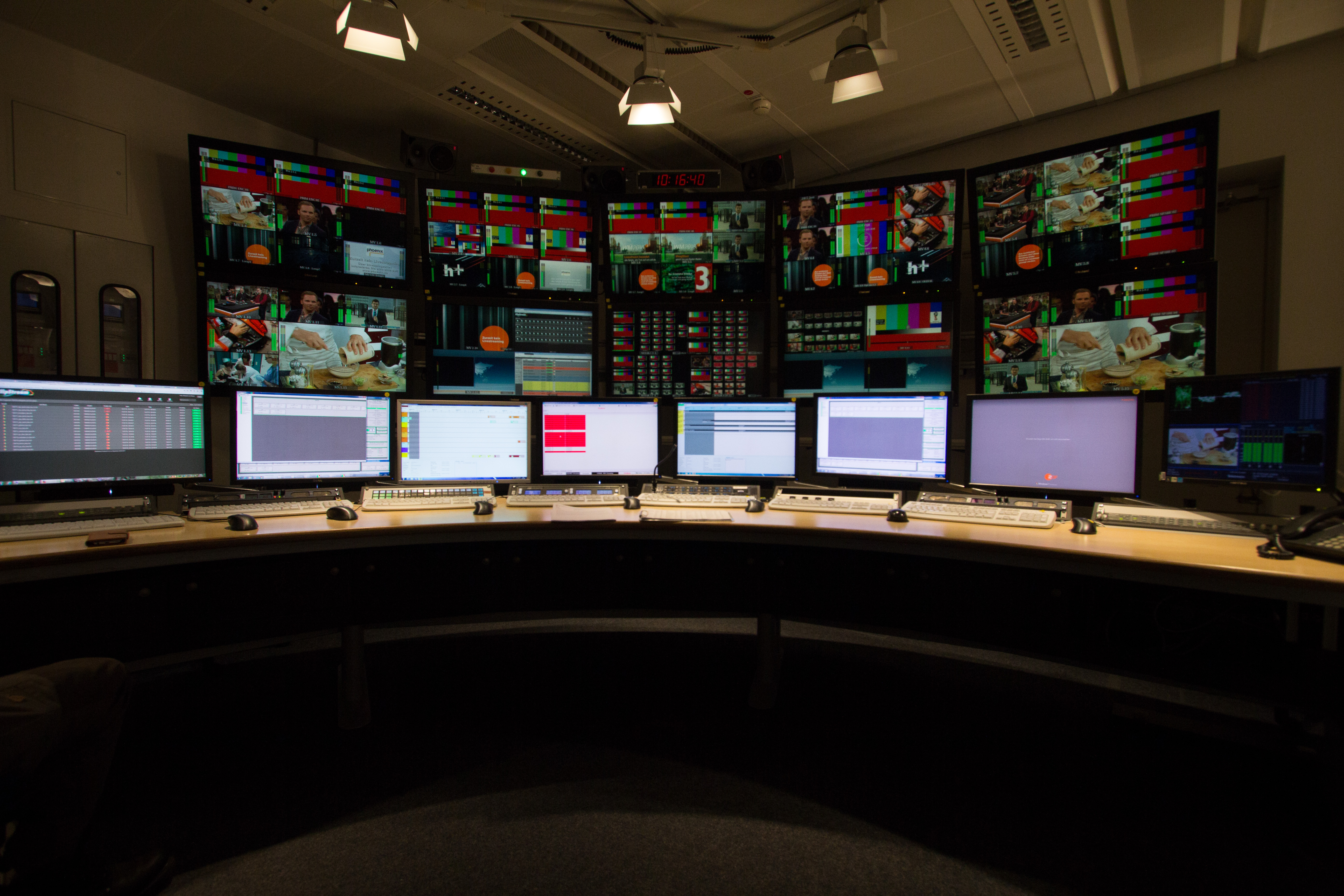 Streaming Playoutcenter ZDF in Mainz